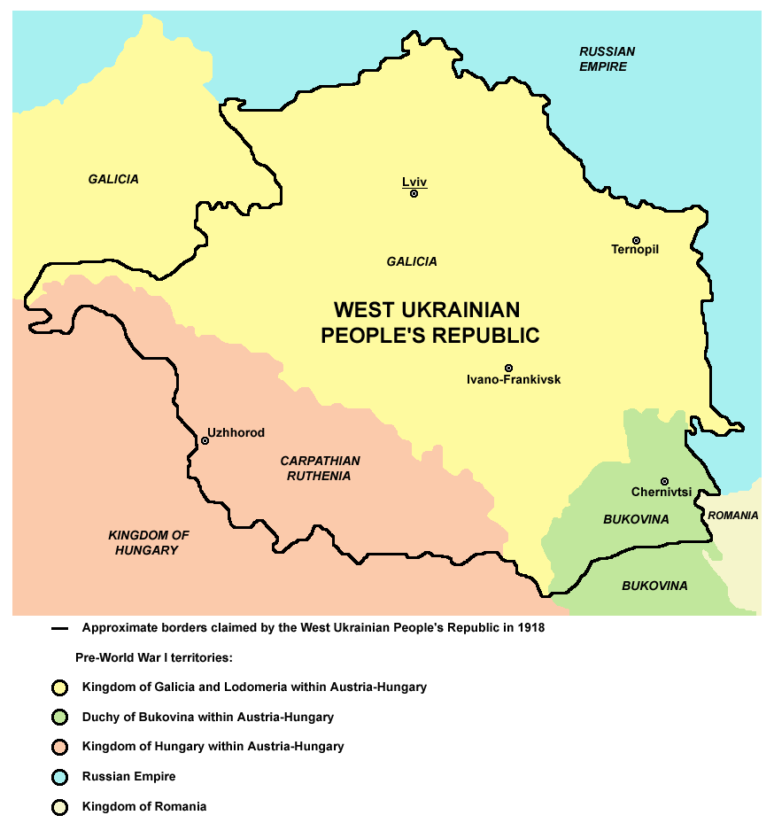 Map of the areas claimed by the West Ukrainian People's Republic in 1918.